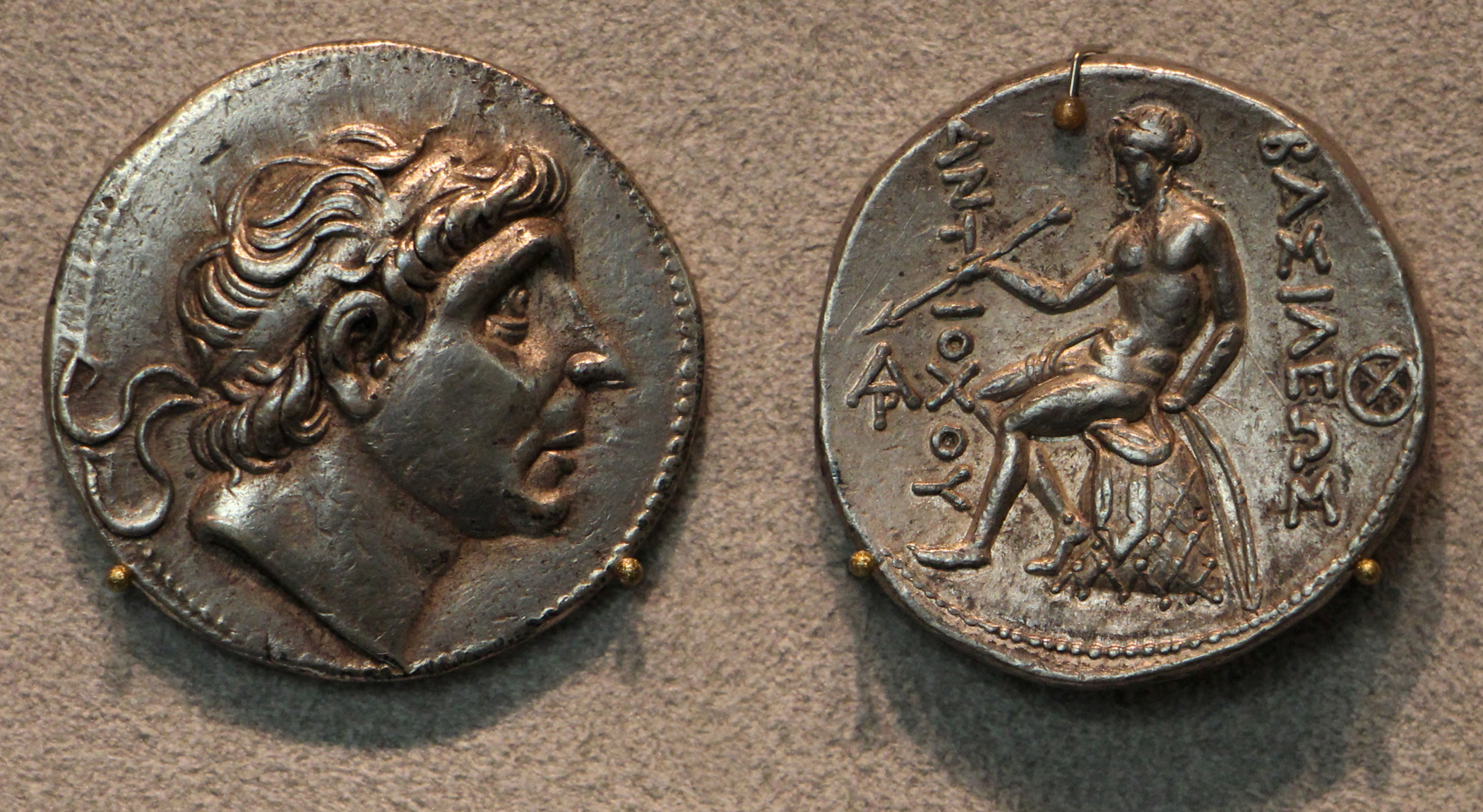 Ancient Greek coins in the Altes Museum Berlin